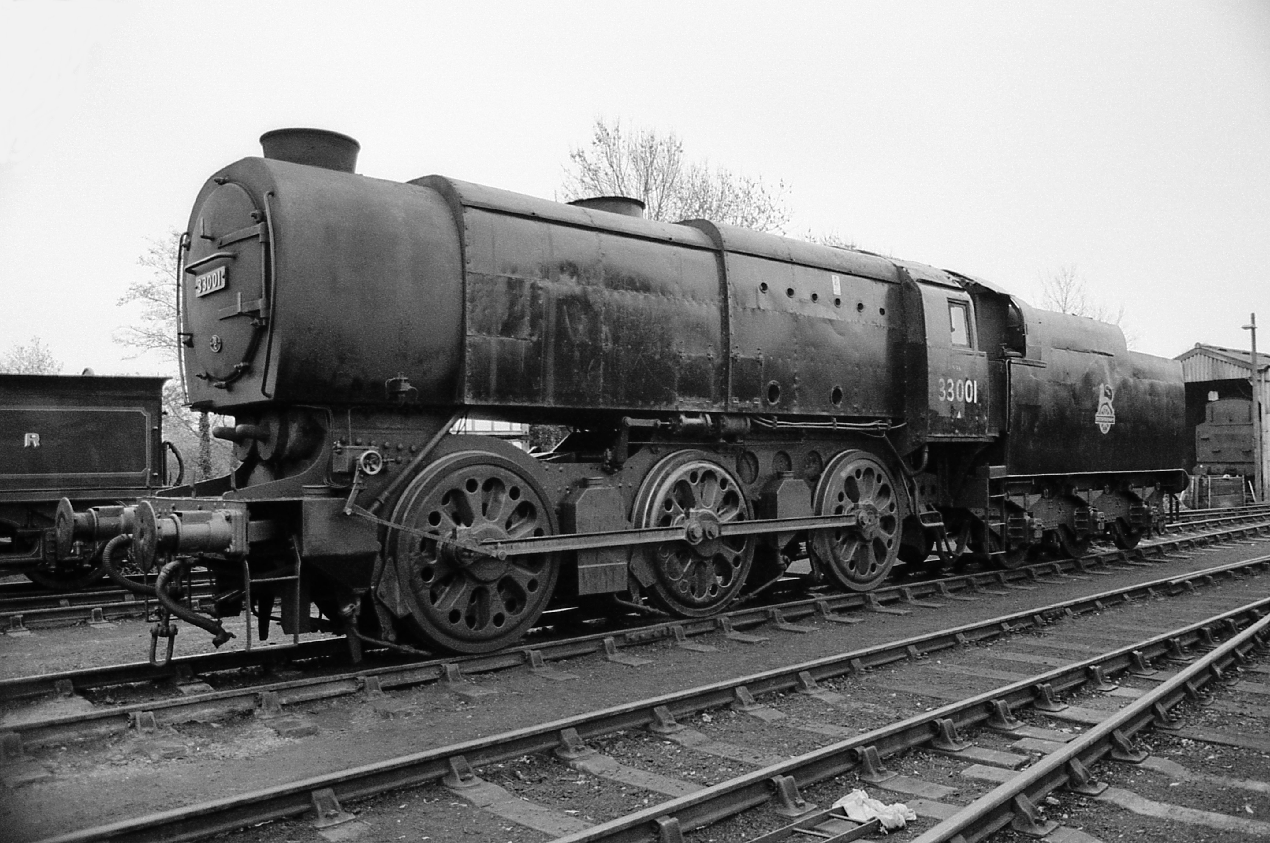 Mr. Bulleid's Ugly Duckling, but a fine engine in service. The long firebox on a 'Charlie' takes a little getting used to but once conquered what a machine this is. 33001 captured at Sheffield Park on a cold winter's day. Camera: Olympus OM1 35mm SLR. Film: Kodak.